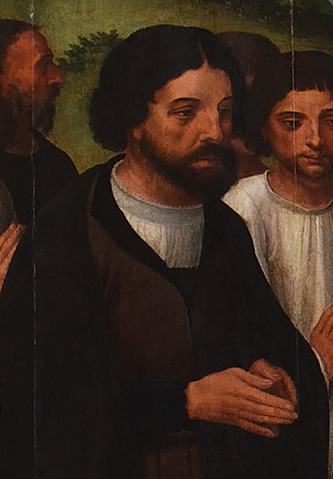 Detail of the donor portrait of Simão Gonçalves da Câmara, the Magnificent, in the Triptych of St. James the Less and St. Philip, c. 1527-1531, by Pieter Coecke van Aelst (Sacred Art Museum of Funchal)